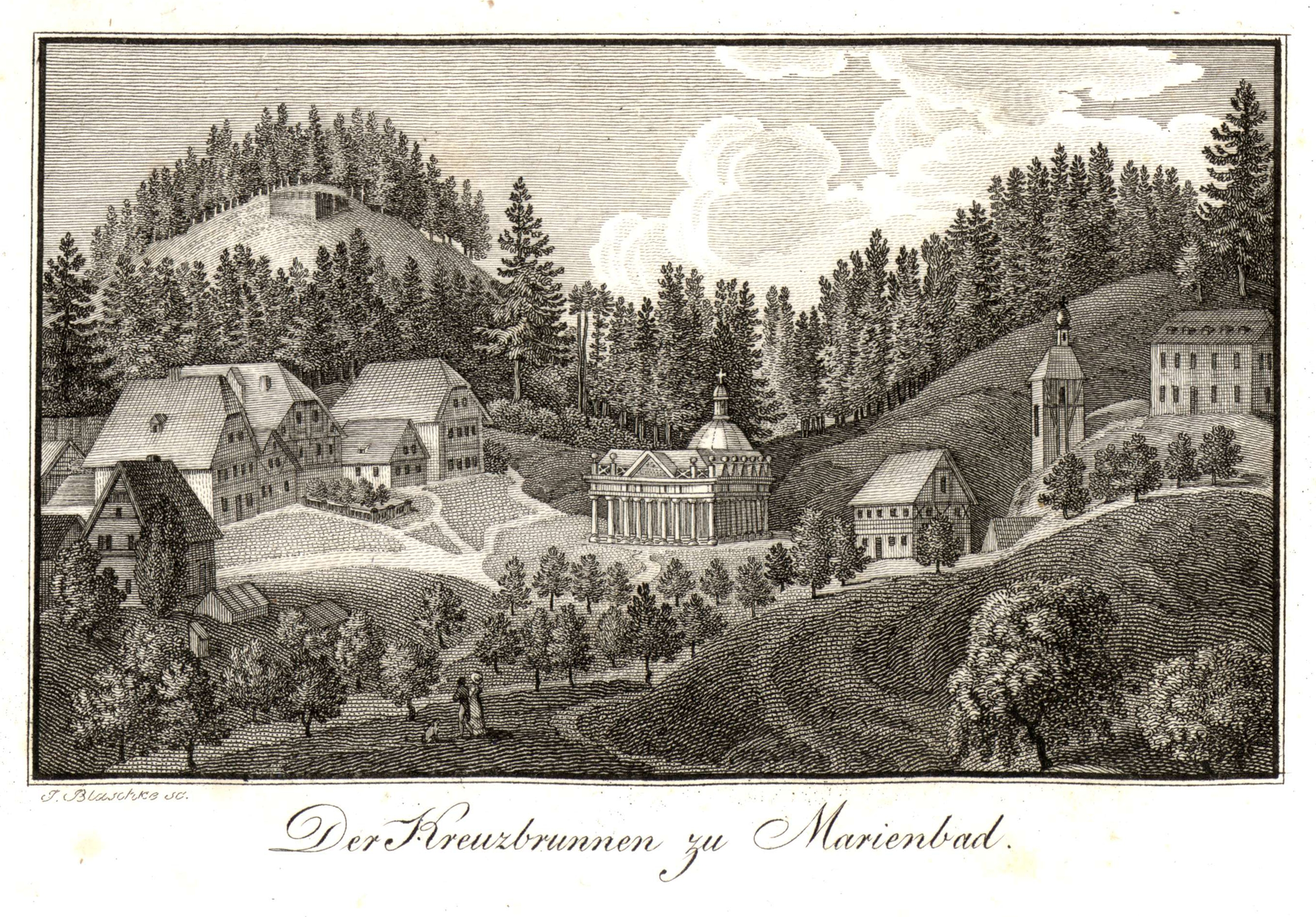 Oesterreichs Tibur, oder Natur- und Kunstgemählde aus dem oesterreichischen Kaiserthume Verlag Doll, Wien 1819 Scanprojekt Bundesdenkmalamt Österreich This scan or this PDF-file was created within the Austrian Wikipedia-project Denkmalpflege Österreich (German only) supported by Wikimedia Germany and Wikimedia Austria as part of the Wikipedia community-project to collect public domain documents from the library of the Heritage Monuments Board of Austria. This document describes or depicts an object which is located in Austria today. Send requests for uncompressed scans to Hubertl. This work is in the public domain in the United States, and those countries with a copyright term of life of the author plus 100 years or less. This file has been identified as being free of known restrictions under copyright law, including all related and neighboring rights.